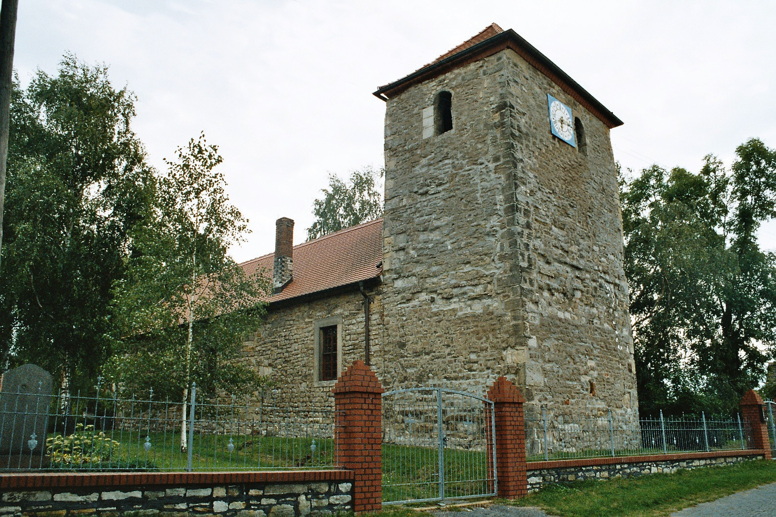 Burgsdorf (Lutherstadt Eisleben), the village church